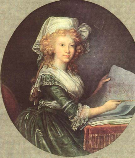 "Maria Luisa Amelie, later Grand Duchesse of Tuscany". She's wearing a version of the so-called "pouter-pigeon" fashion of the beginning of the 1790's.